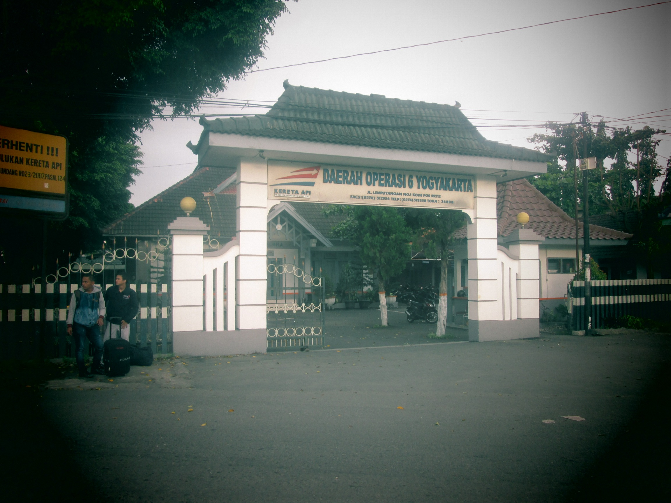 An office of 6th Indonesian Railways Co., Operation Area of Yogyakarta